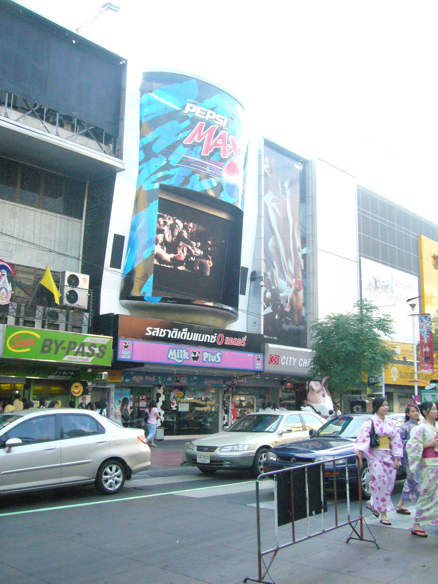 Shaker Screen at Siam Square